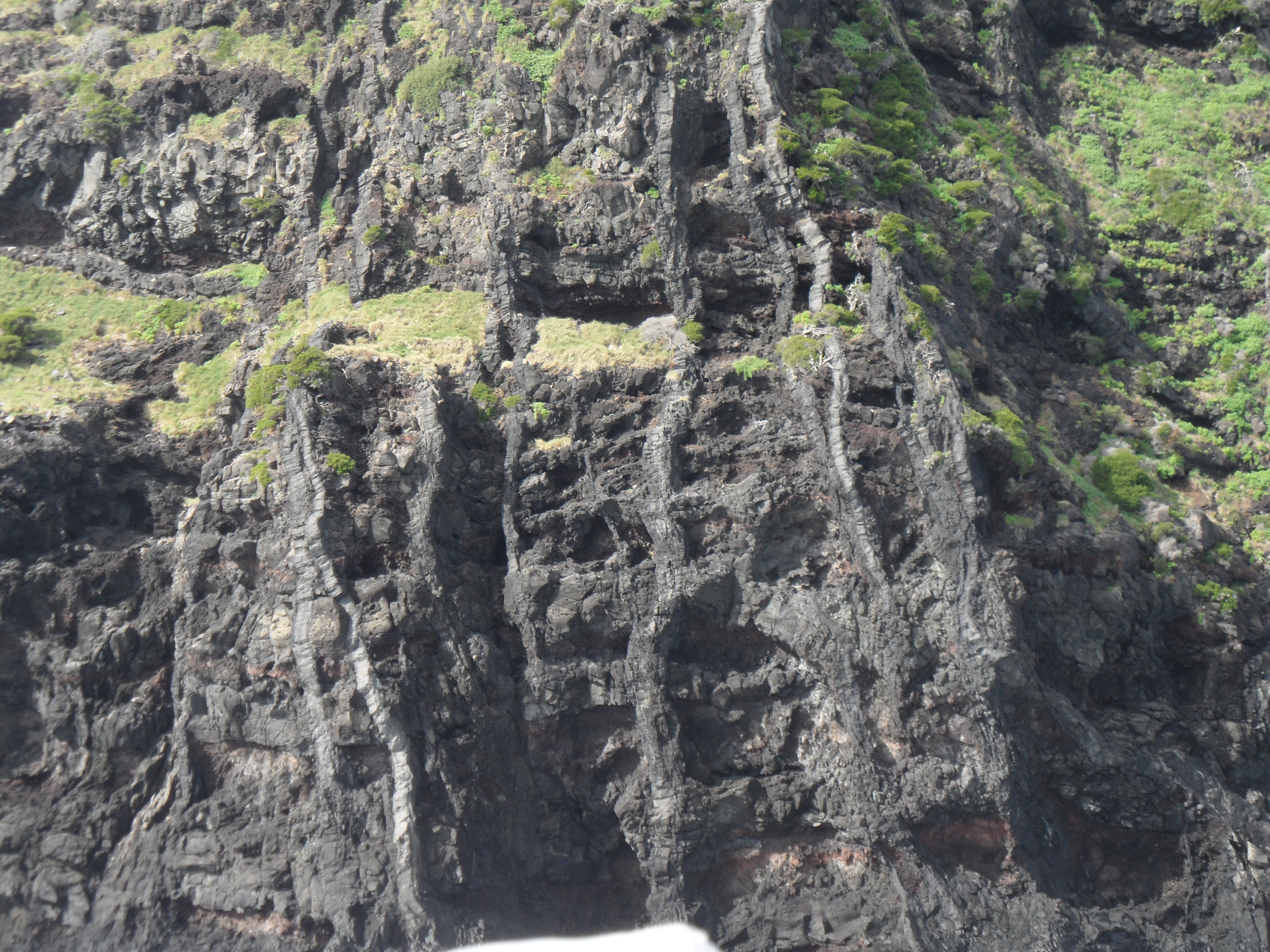 Basalt dykes, Lord Howe Island